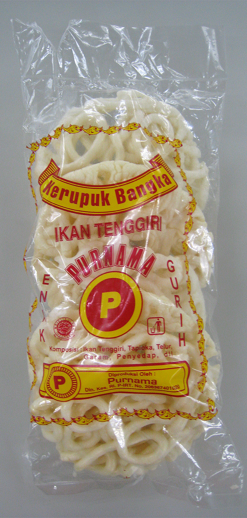 Purnama brand Krupuk Bangka, fish cracker from Bangka Island, Indonesia. Made of ikan tenggiri (wahoo), tapioca starch, egg, salt, and flavour enchancer.